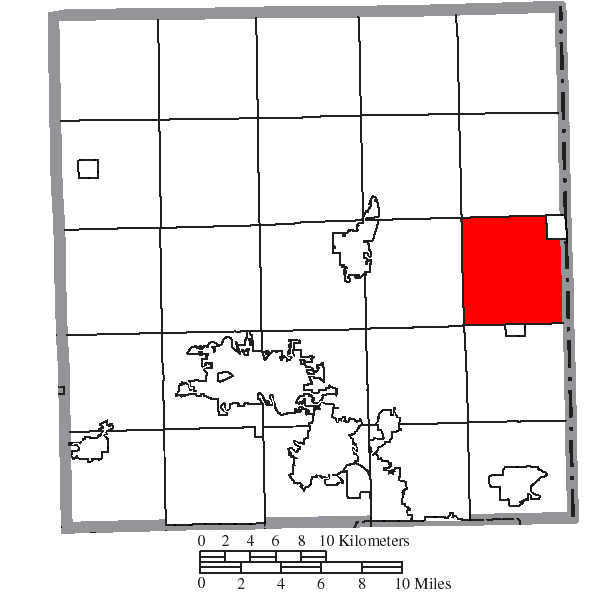 Map of the municipal and township boundaries of Trumbull County, Ohio, United States, as of the 2000 census, with the location of Hartford Township highlighted. Township borders are shown only in unincorporated areas in order to differentiate incorporated and unincorporated areas more clearly.